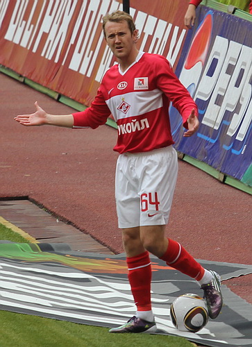 Aiden McGeady